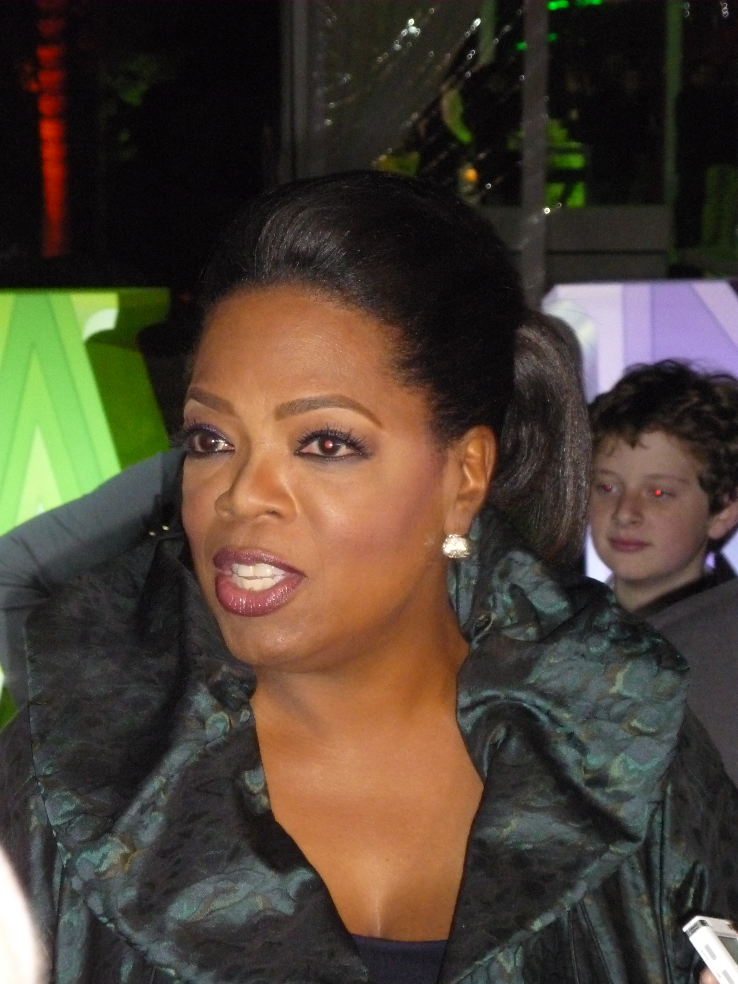 Oprah Winfrey at 2011 TCA